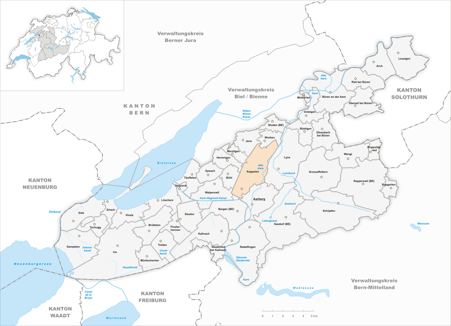 Municipality Kappelen